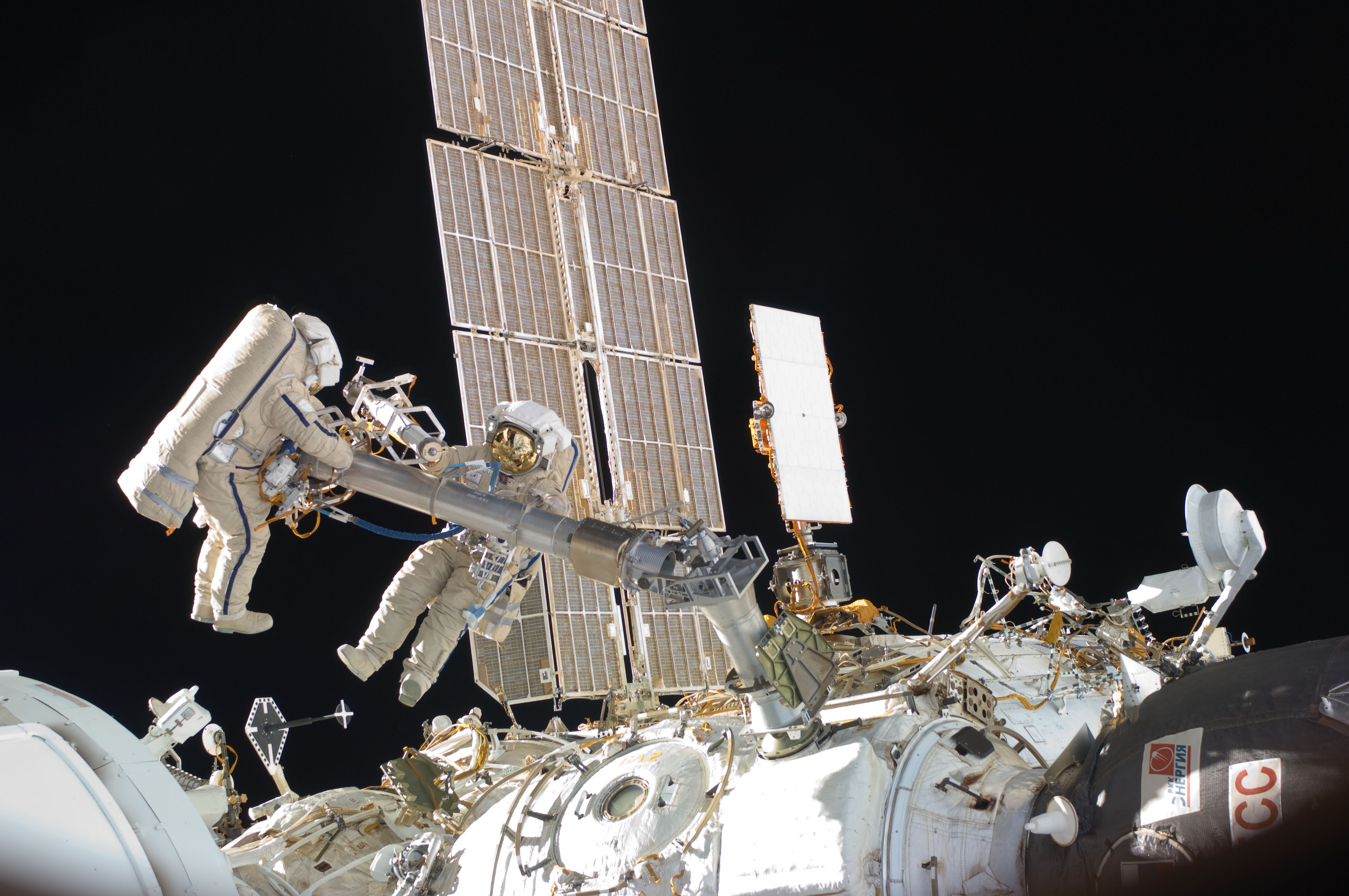 Russian cosmonauts Oleg Kononenko and Anton Shkaplerov, both Expedition 30 flight engineers, participate in a session of extravehicular activity (EVA) to continue outfitting the International Space Station. During the six-hour, 15-minute spacewalk, Kononenko and Shkaplerov moved the Strela-1 crane from the Pirs Docking Compartment to begin preparing the Pirs for its replacement next year with a new laboratory and docking module. The duo used another boom, the Strela-2, to move the hand-operated crane to the Poisk module for future assembly and maintenance work. Both telescoping booms extend like fishing rods and are used to move massive components outside the station. On the exterior of the Poisk Mini-Research Module 2 (MRM2), they also installed the Vinoslivost Materials Sample Experiment, which will investigate the influence of space on the mechanical properties of the materials. The spacewalkers also collected a test sample from underneath the insulation on the Zvezda Service Module to search for any signs of living organisms. Both spacewalkers wore Russian Orlan spacesuits bearing blue stripes and equipped with NASA helmet cameras.